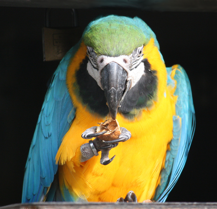 Blue-and-yellow Macaw, also known as the Blue-and-gold Macaw. The macaw is eating a walnut by holding it in one foot and bringing it to its beek. Photograph taken in Wilhelma Zoo, Stuttgart, Germany.